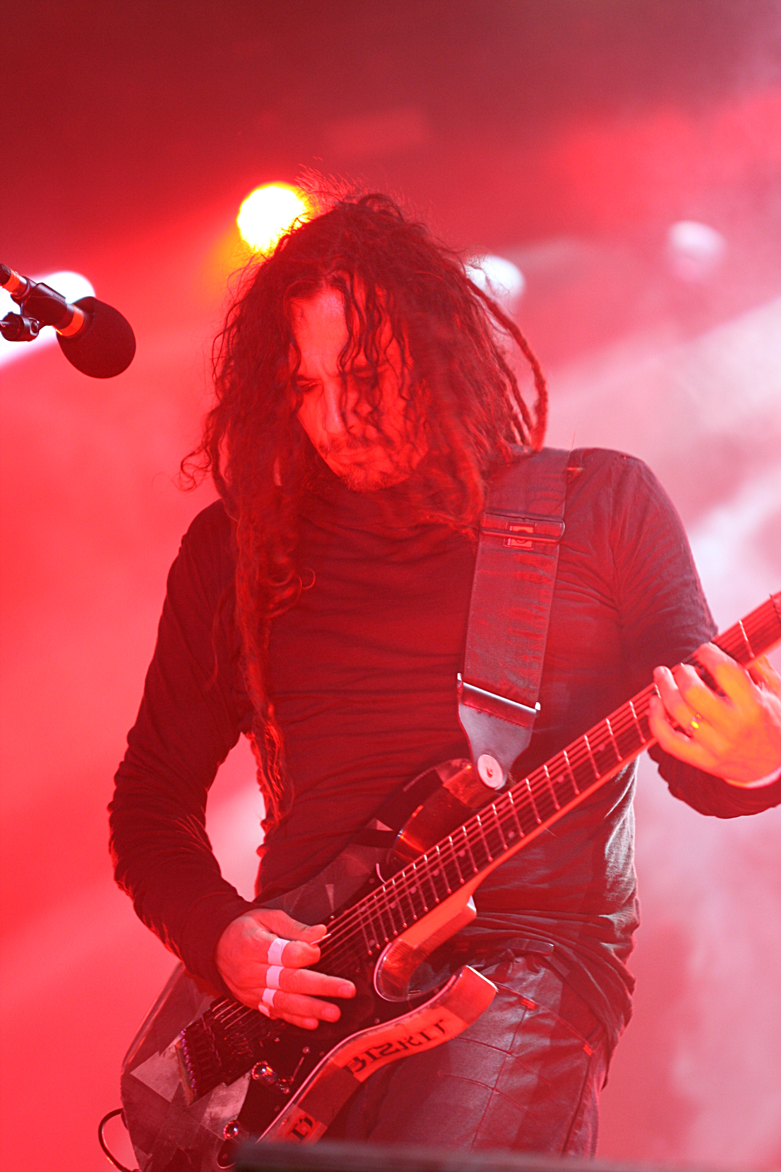 James Shaffer, guitarist of Korn, on the Alterna Stage of Rock im Park-Festival 2013. Festivalsommer This photo was created with the support of donations to Wikimedia Deutschland in the context of the CPB project "Festival Summer".